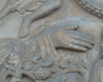 Romanesque basilica of San Isidoro in León, Spain. Tympanus of the romanesque gate of the Lamb. Detail of the Dextera Domini.